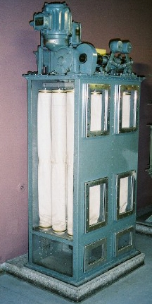 bag filter donated to the "Deutsches Museum" Munich